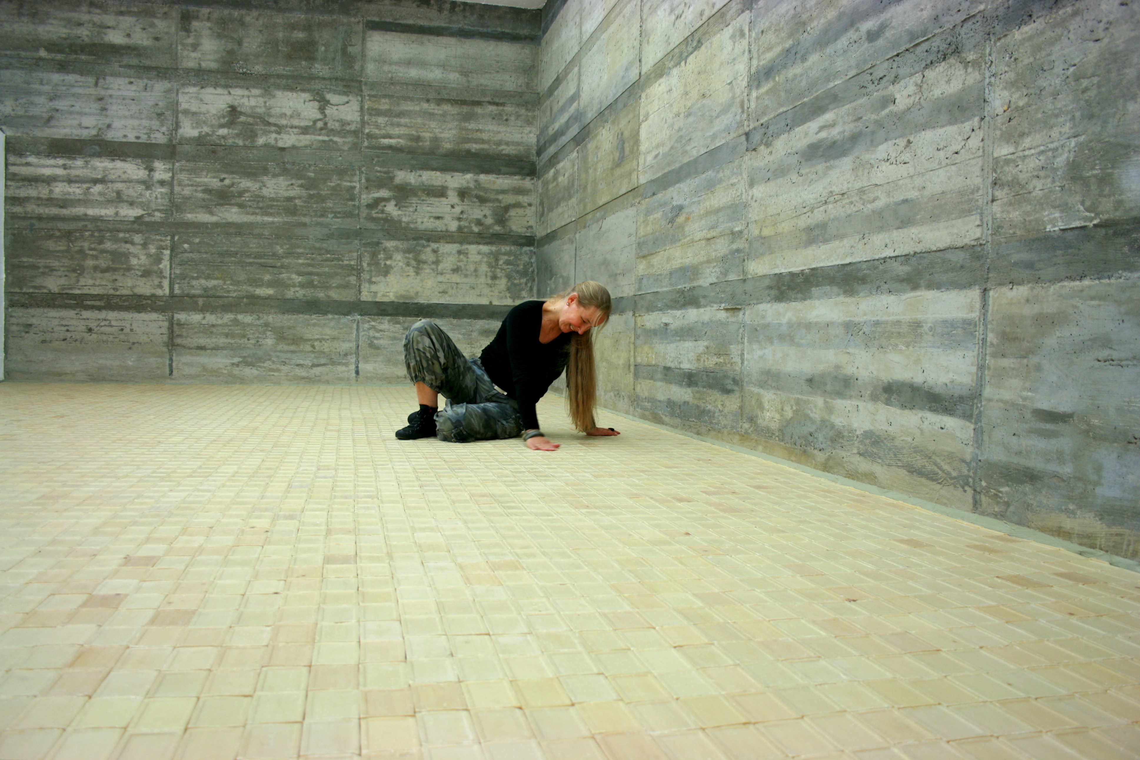 Danuta Karsten